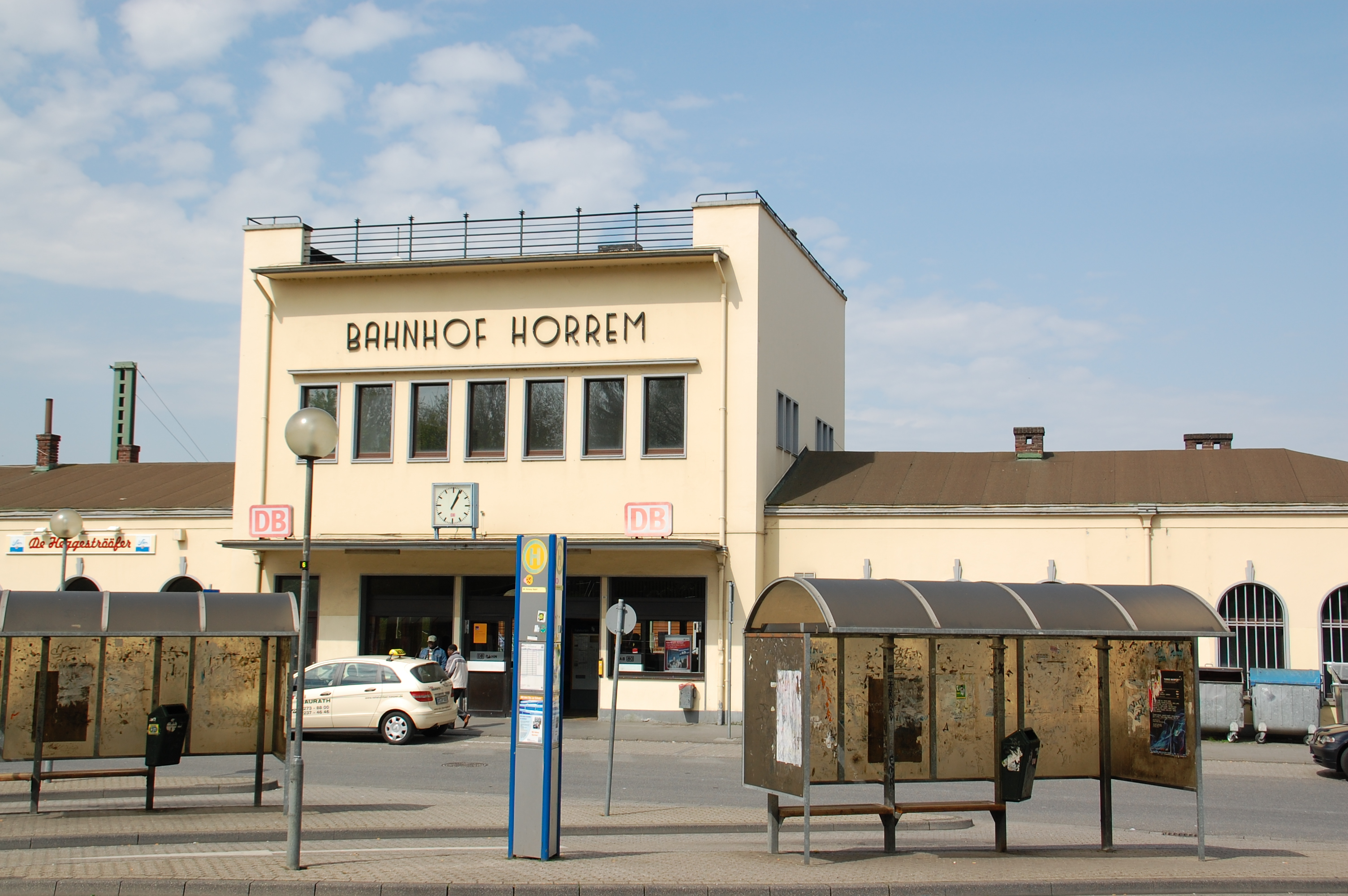 Railway Station in in Kerpen-Horrem, Germany